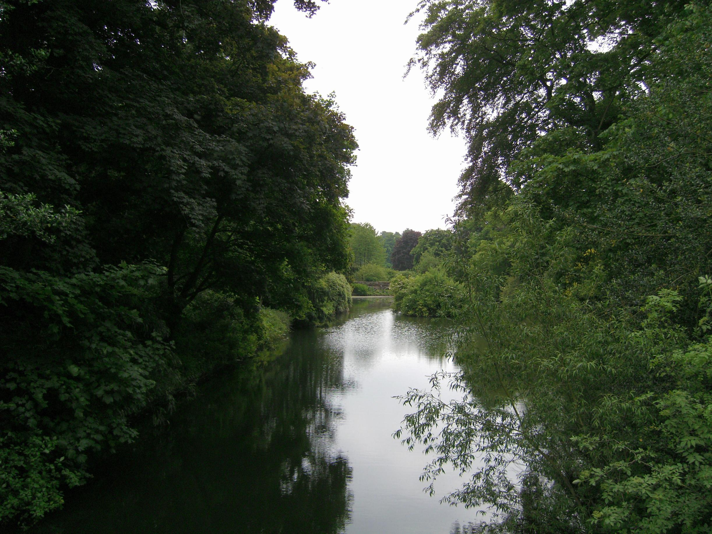 Southern pool at the Wodehouse, Wombourne, Staffordshire, England. On the Wom Brook.